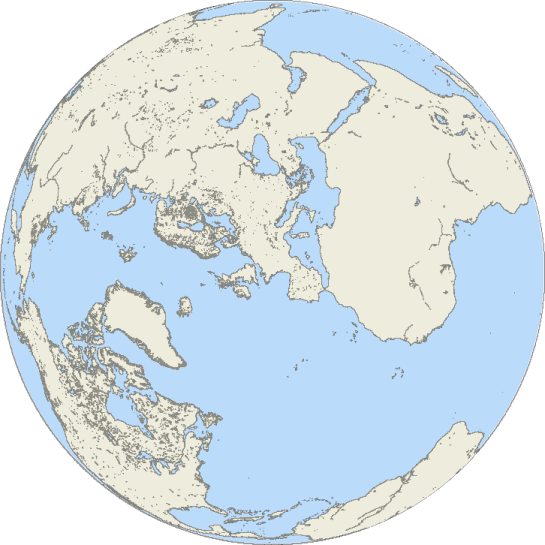 Map of Earth's hemispheres — land hemispheres.